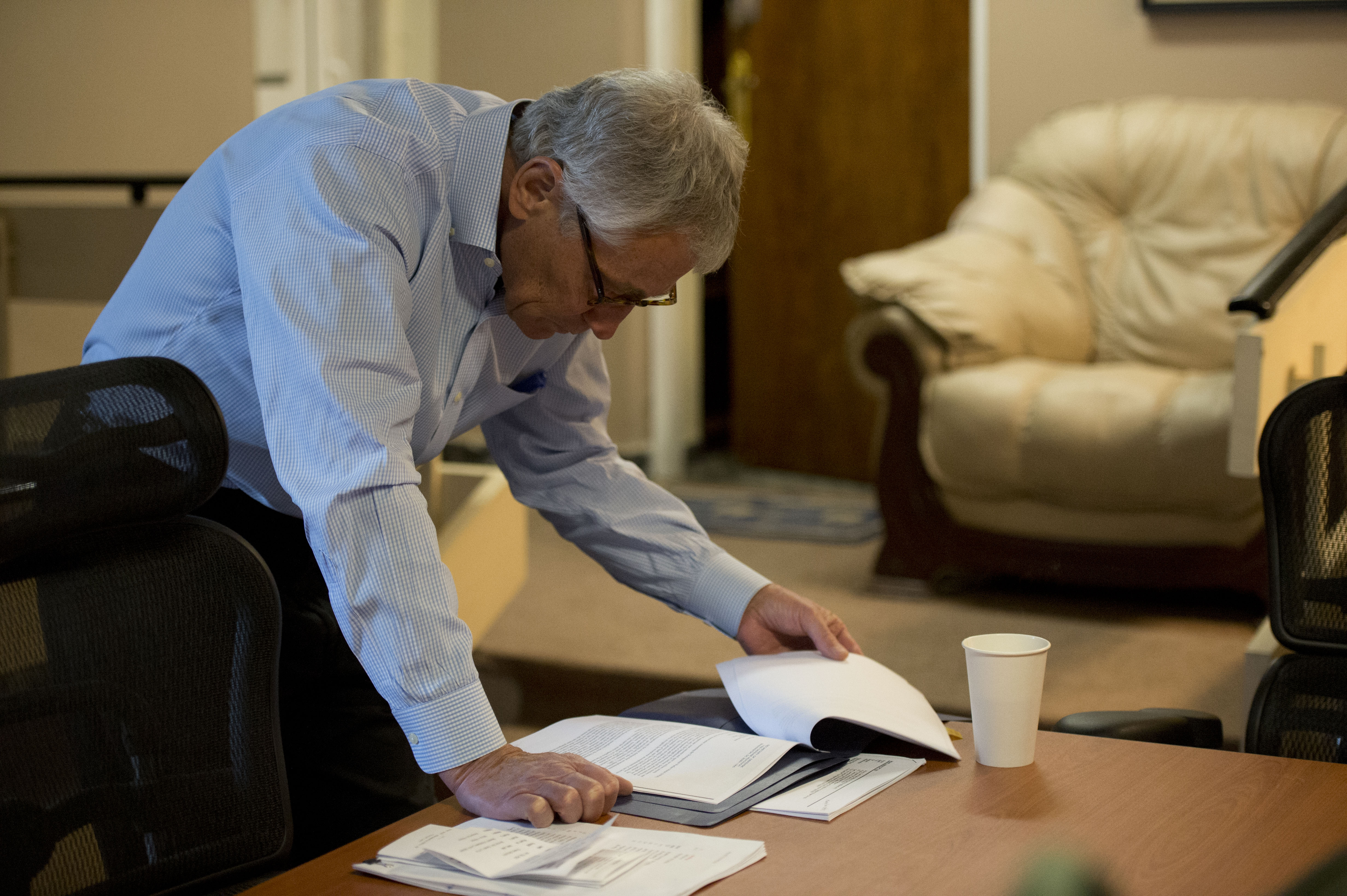 Secretary of Defense, Chuck Hagel, starts his day reading newspaper excerpts in the "Early Bird", in Kabul, Afghanistan, March 9, 2013. Hagel is traveling to Afghanistan on his first trip as the 24th Secretary of Defense to visit U.S. Troops, NATO leaders, and Afghan counterparts. (DoD photo by Erin A. Kirk-Cuomo)